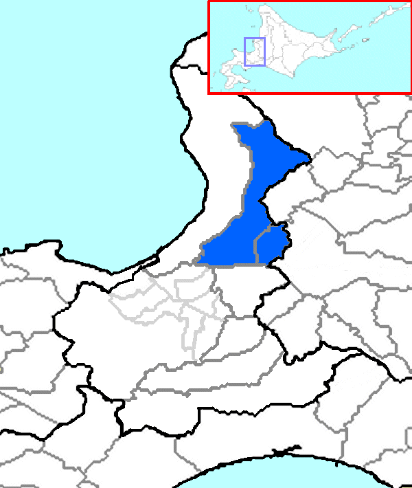 The location of Ishikari District in Ishikari_Subprefecture, Hokkaido Prefecture, Japan.